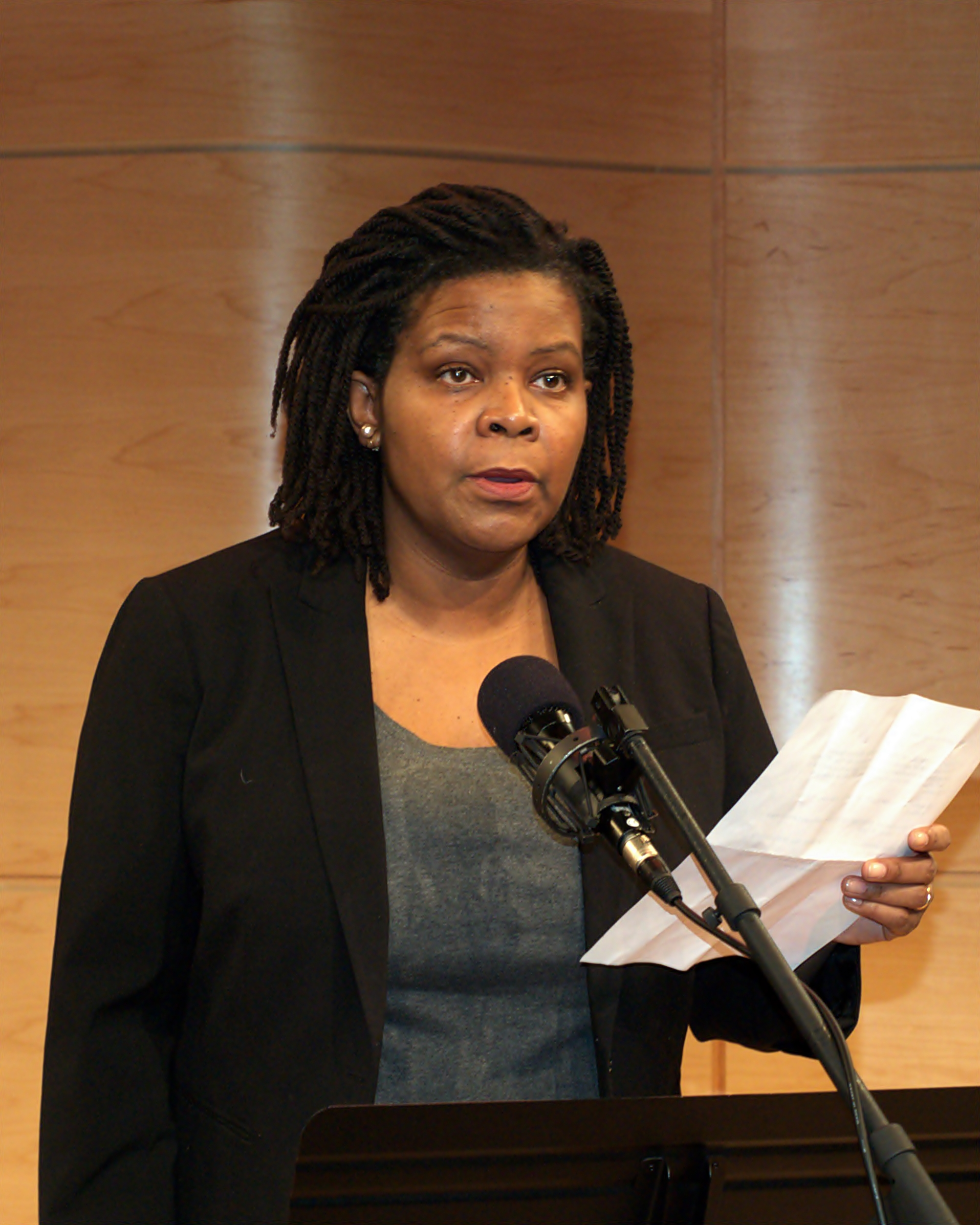 Annette Gordon-Reed announcing the five 2010 National Book Critics Circle finalists in nonfiction.